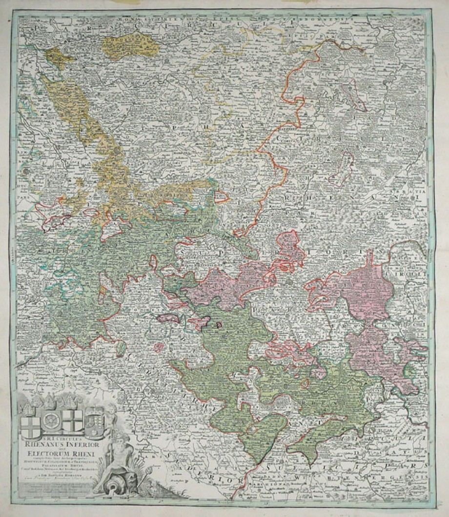 The ecclesiastical Electorates of Cologne (in yellow) Trier (in green, south of Cologne) Mainz (in pink), and the Palatinate of the Rhine (in green, south of Mainz). Not shown are the Mainz dependencies of Erfurt and the Erchfeld to the northeast.